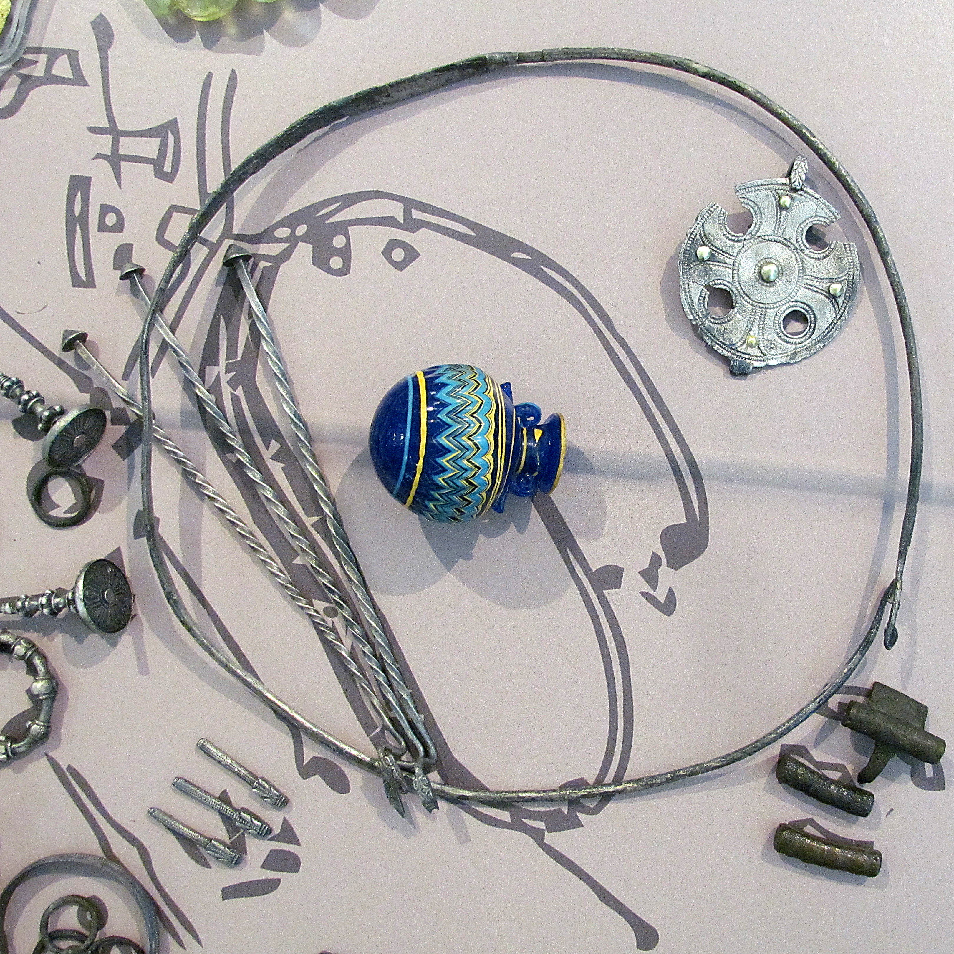 Trebenište necropolis, National Museum in Belgrade